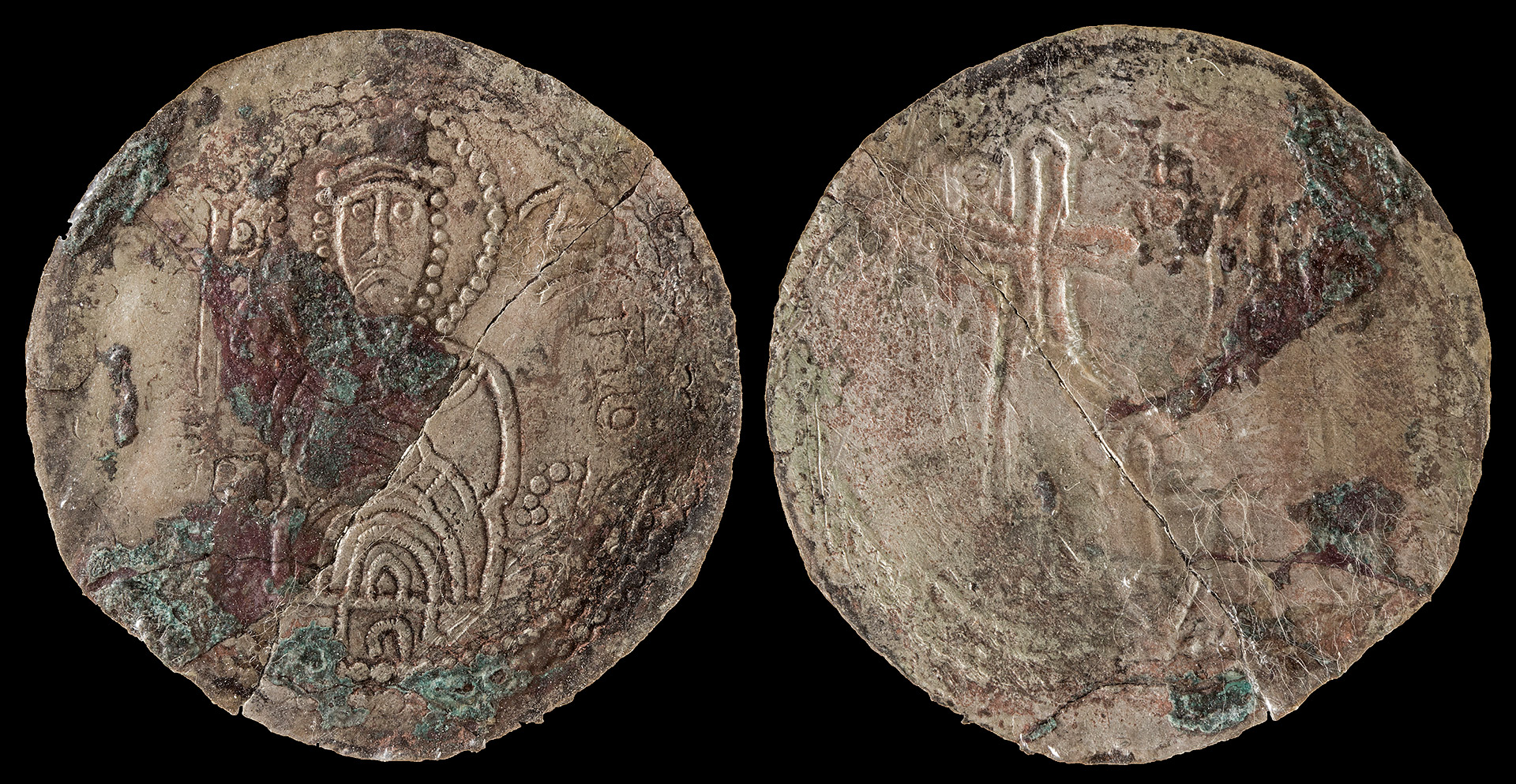 Srebrenik Svyatopolk the Damned, 1015-1016 gg